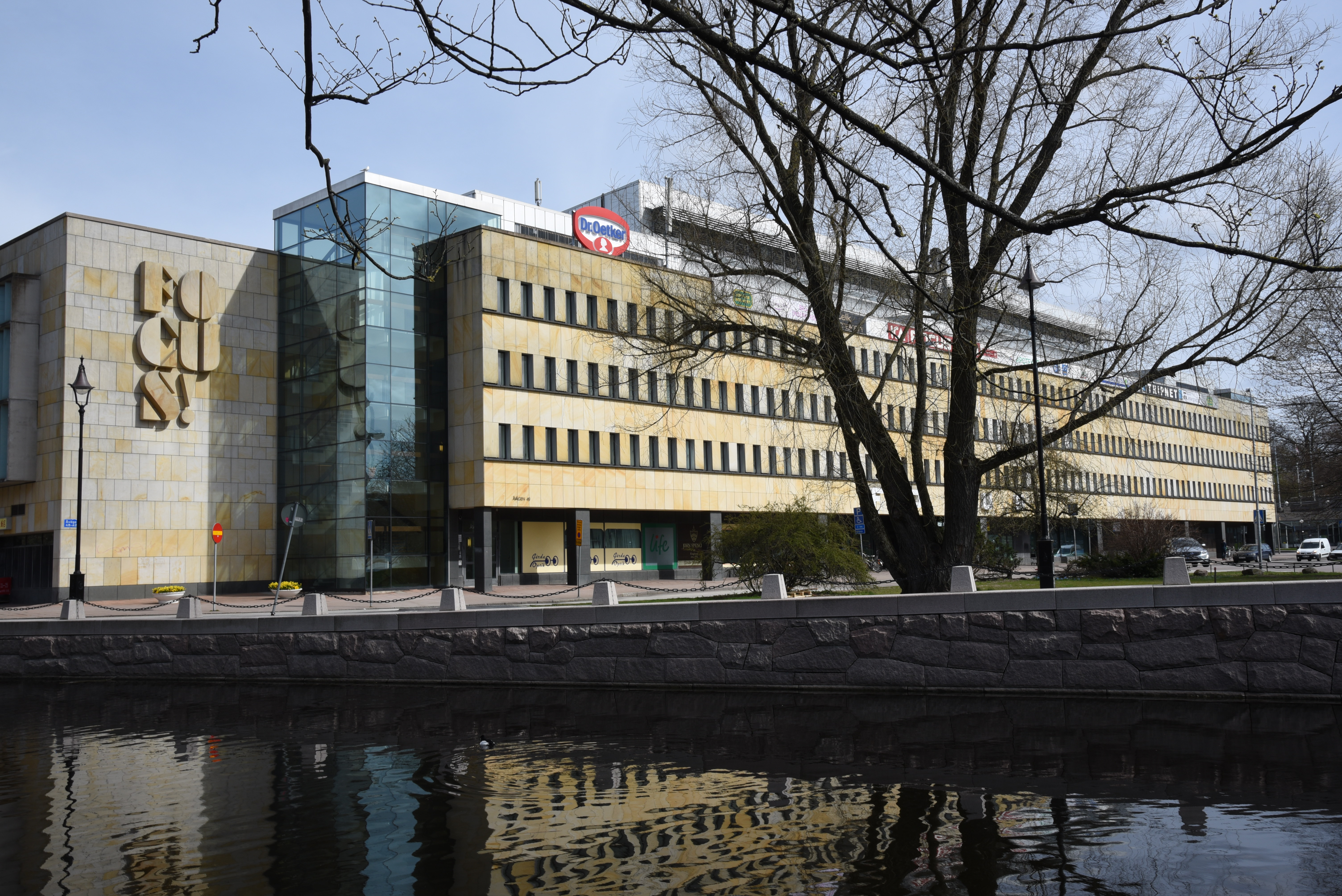 The business and shopping building Focus near the amusement park Liseberg in Göteborg.